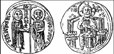 It reads in Latin: DVX PAVL – BAN – MLADEn' meaning duke Paul - Ban Mladen